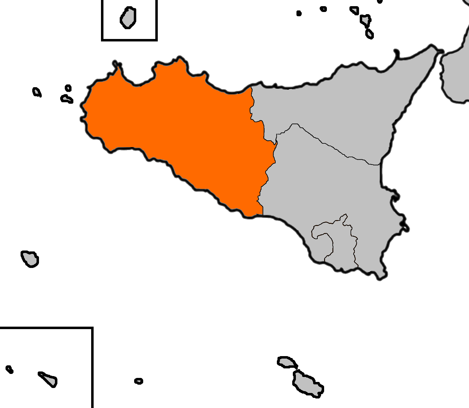 Map of Kingdom of Sicily in 1720. Source= Johann Wolfang Wieland, Isle et Royaume de Sicile, 1720.